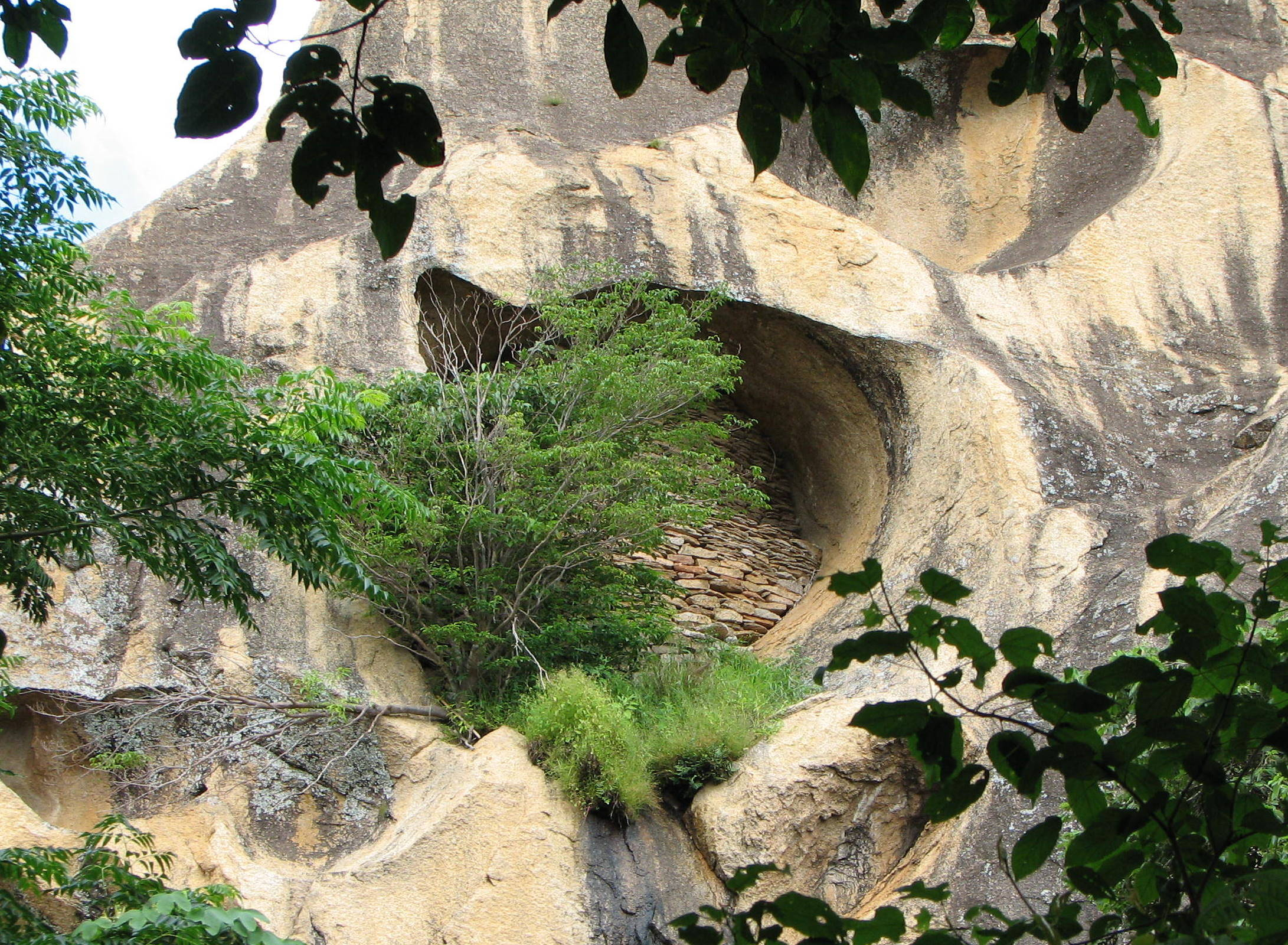 Betsileo tomb in the Anjà Reserve, Madagascar